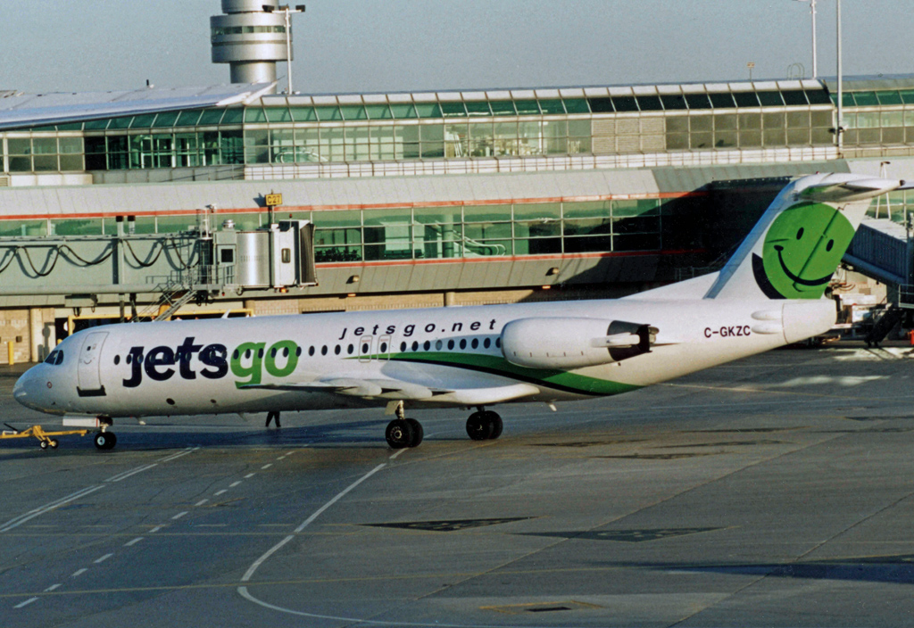 Fokker 100 C-GKZC of Jetsgo at Toronto (Malton) Airport in September 2004.